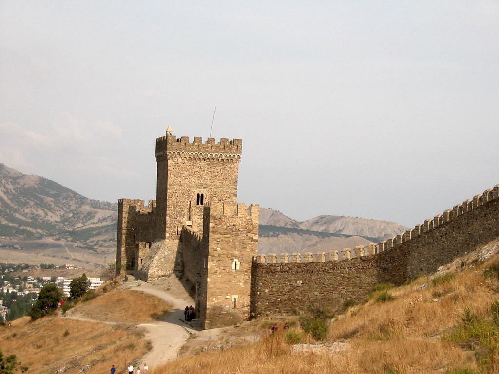 The Genoese fortress of Sudak 14th-15th centuries. The citadel of the Genoese fortress in Sudak.